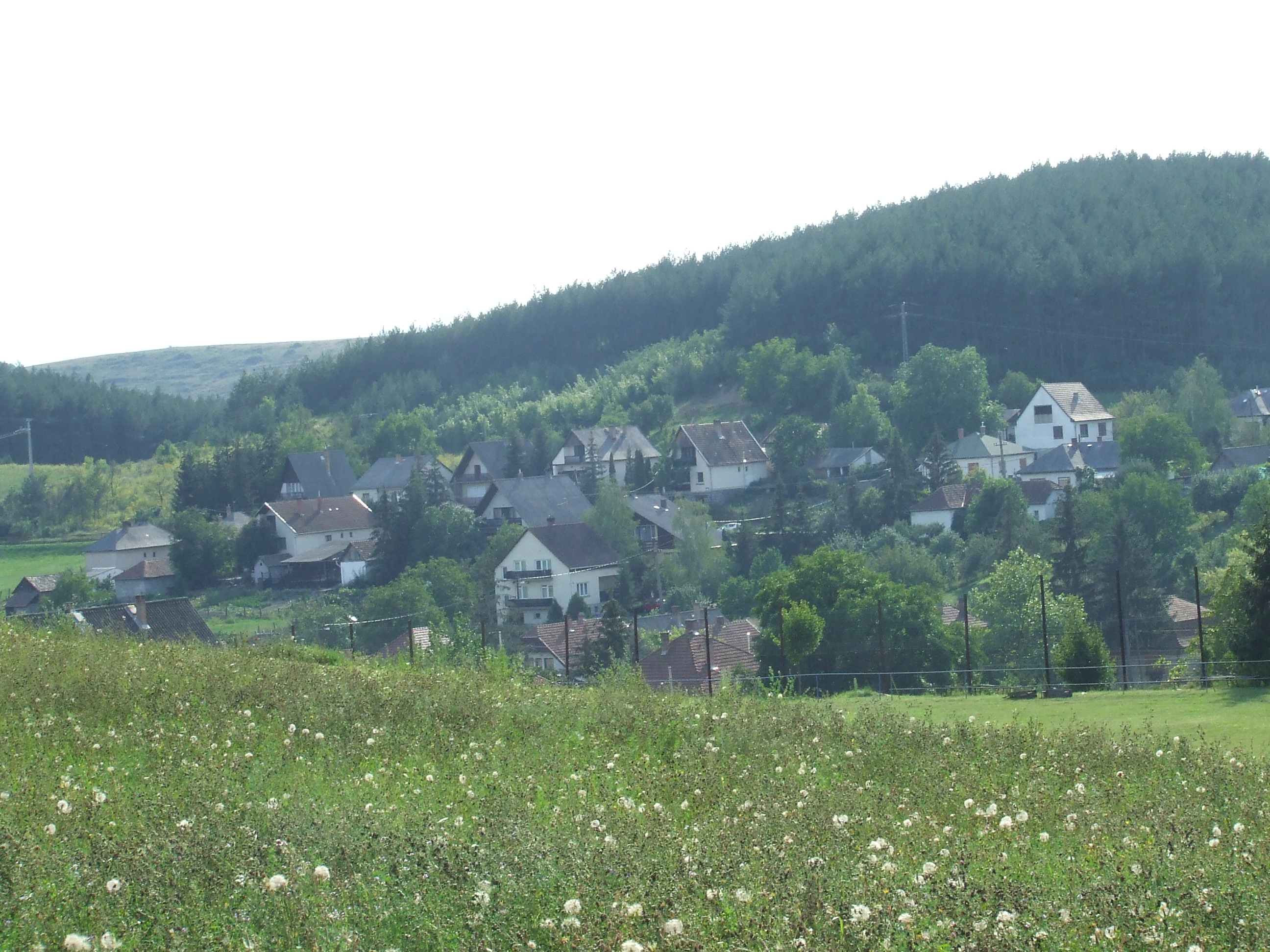 The village of Bükkszék (Hungary) in the Mátra Mountains. Bükkszék is famous for its special spas and thermal water (called Salvus).